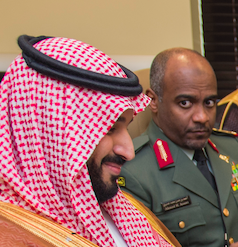 Muhammed bin Salman and general Asiri